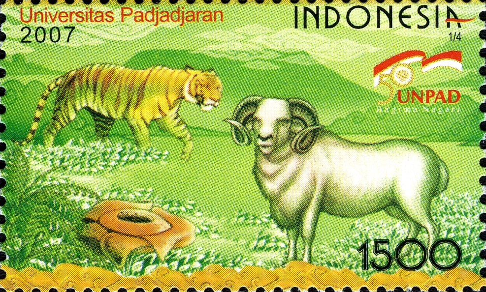 Stamps of Indonesia